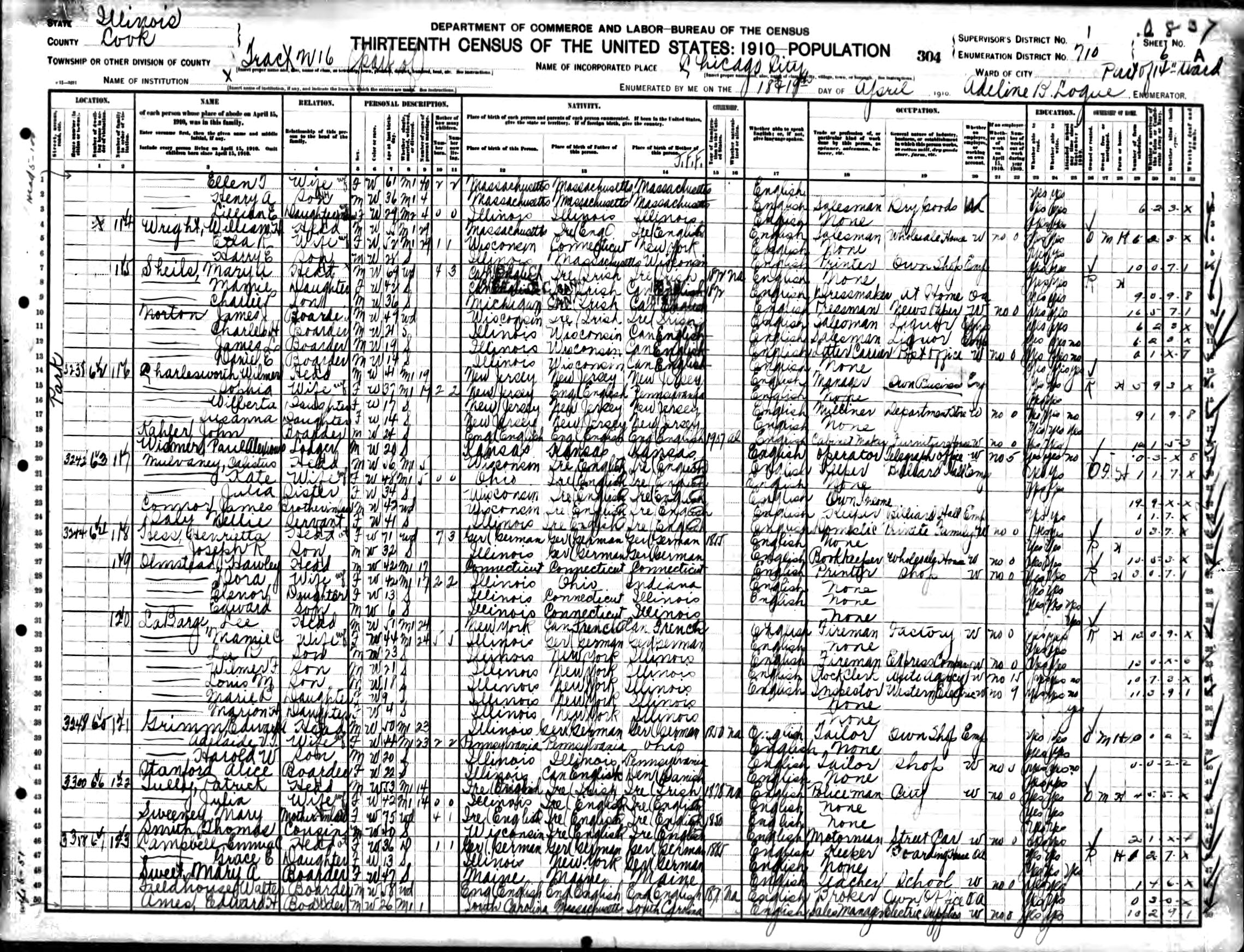 Page from the 1910 United States Census listing, among others, Calistus Mulvaney, the apparent "Father of Kelly pool".